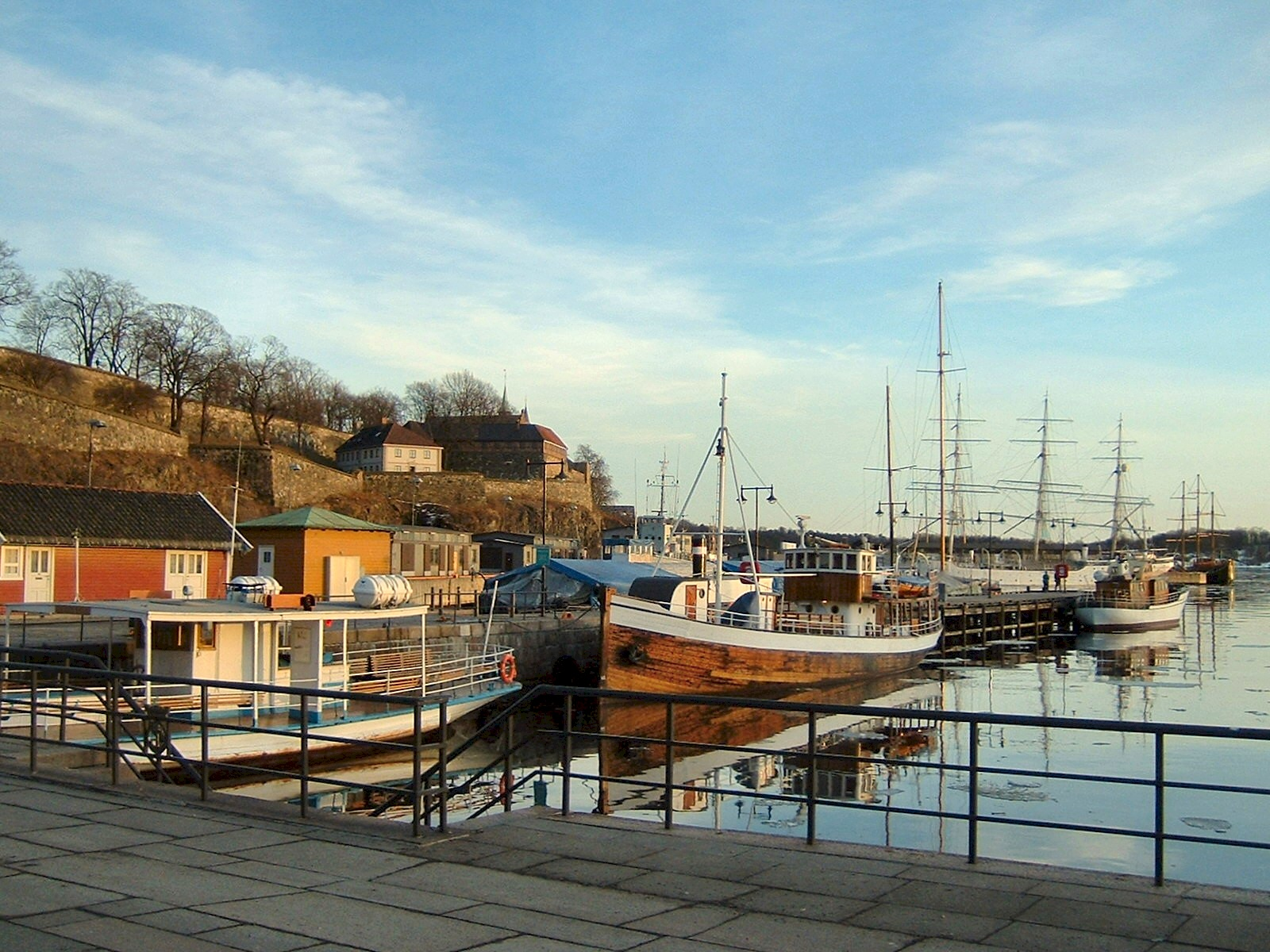 Harbour of Oslo, Norway. Colors enhanced.